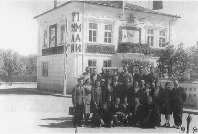 Botevgrad municipial staff in 1948